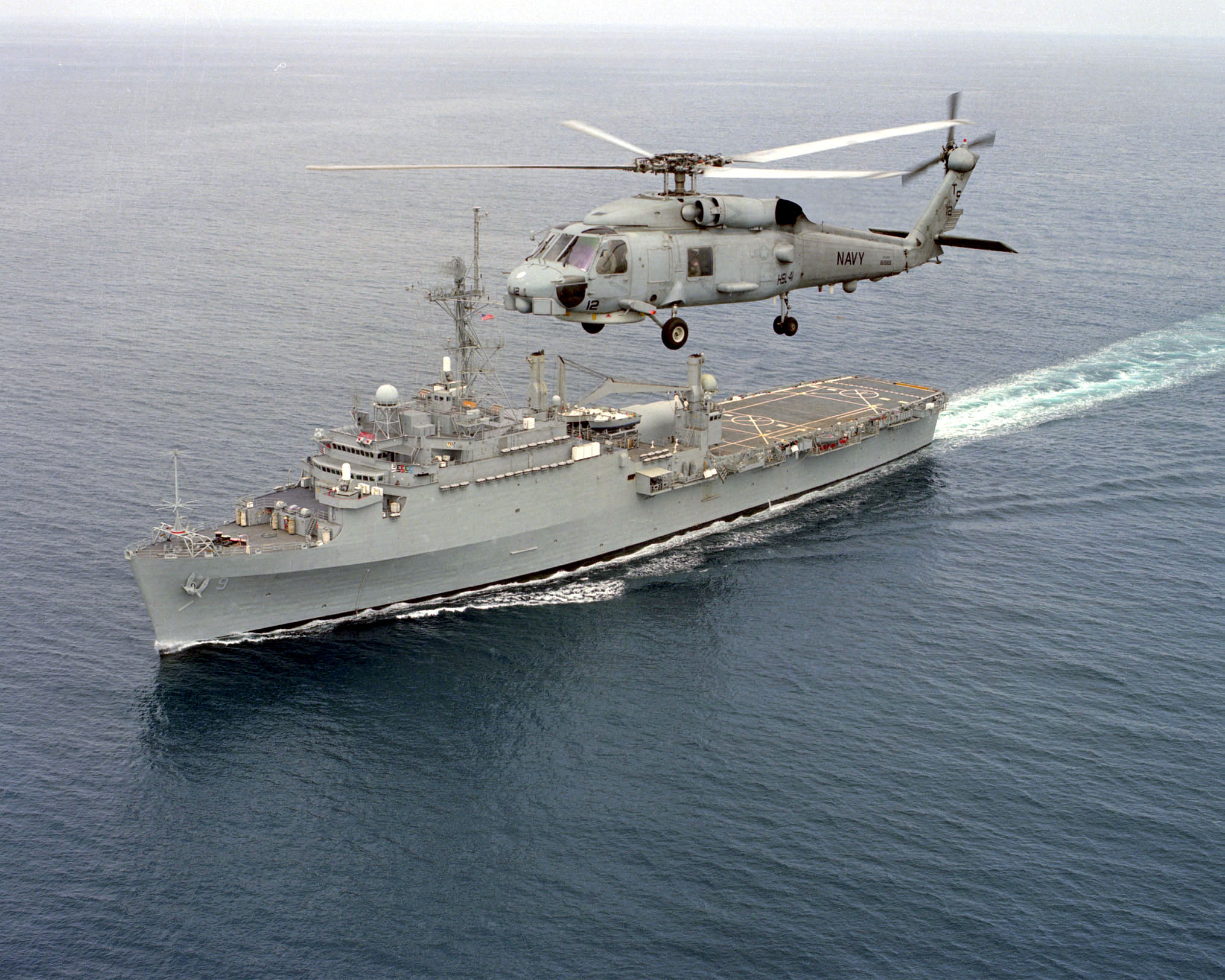 A U.S. Navy Sikorsky SH-60B Seahawk assigned to Helicopter Anti-Submarine Squadron Light 41 (HSL-41) flies alongside the amphibious transport dock ship USS Denver (LPD-9) on 30 September 1997, during fleet operations in the Pacific.